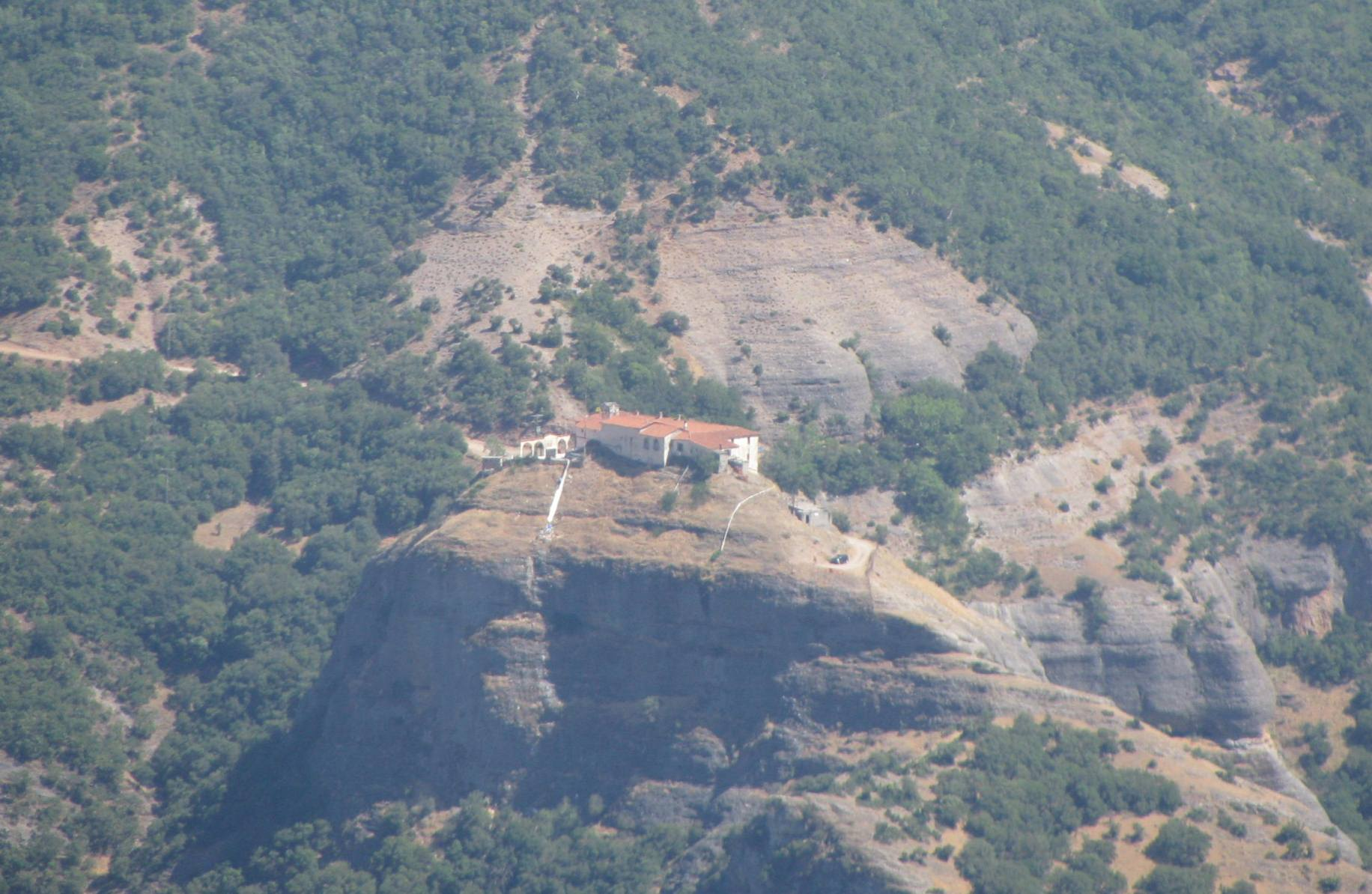 View of the monastery of Makelaria as seen from the road to Rakita. It is dedicated to the Dormition of Theotokos.